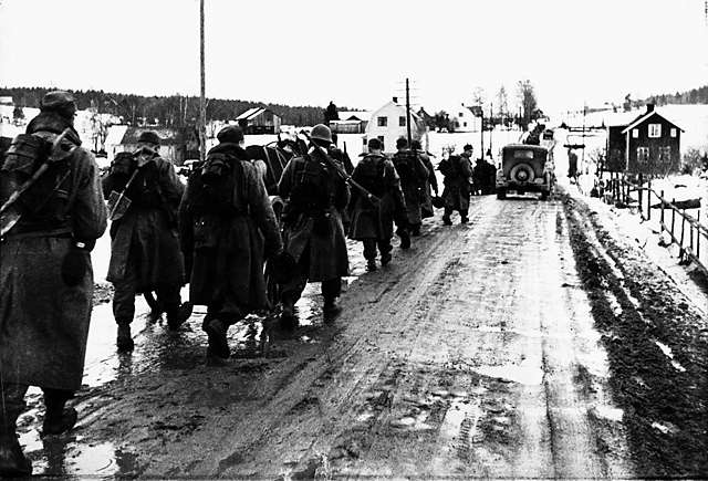 Swedish soldier on march 1940, reportedly to the border of Norway. The German occupation of Denmark and Norway April 9, 1940, meant that the Swedish war plan had to be remade. A defense had to been made along the Swedish-Norwegian border. At the same time the rearmament was intensified and for example destroyers and airplanes were bought in from Italy.